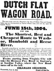 Advertisement for Dutch Flat Wagon Road, 1864.Sacramento Union newspaper, June 6, 1864.